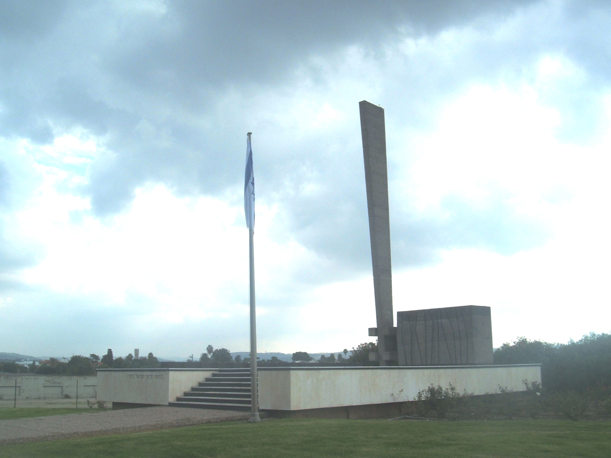 Lehi Monument in Kiryat Ata אנדרטה ללוחמי הלח"י שנפלו בפיצוץ מחסני הרכבת הבריטים ב-1946 שבקרית אתא